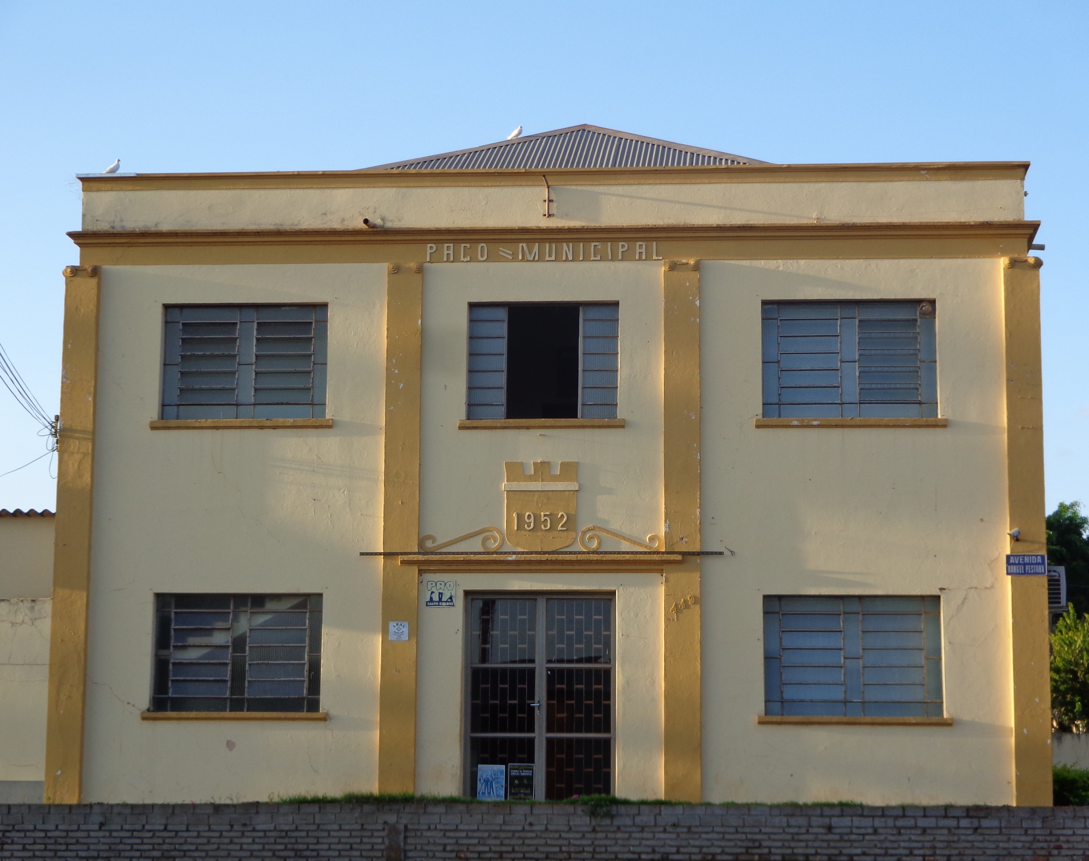 Municipal Palace of Salto Grande.